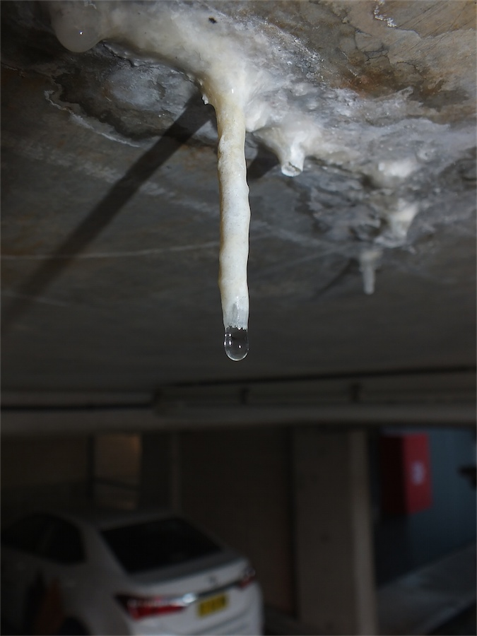 Calthemite straw stalactite growing from the roof of an undercover car-park. A secondary deposit derived from concrete.